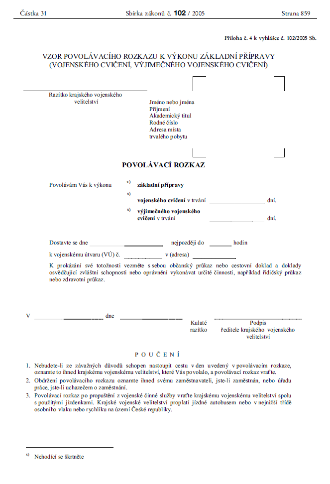 Czech draft notice for basic training, 2005.